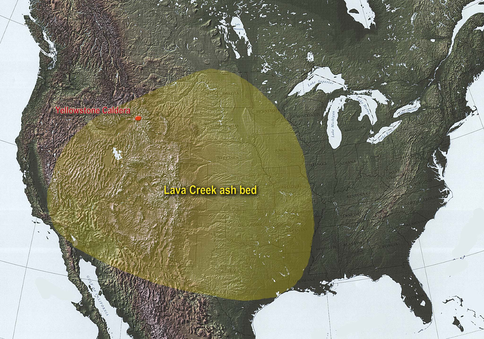 Graphic of the extent of the Lava Creek ash bed.